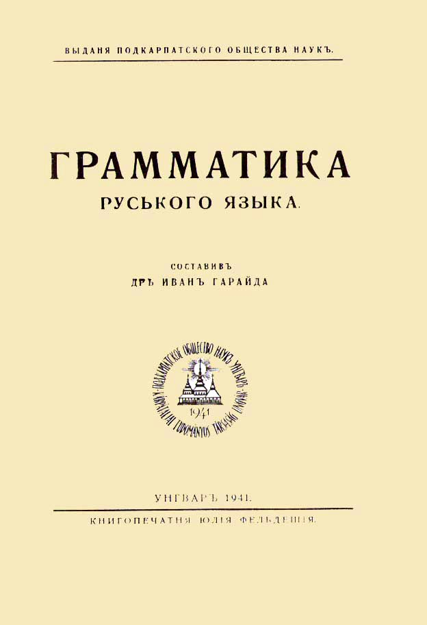 Grammar by Ivan Harajda